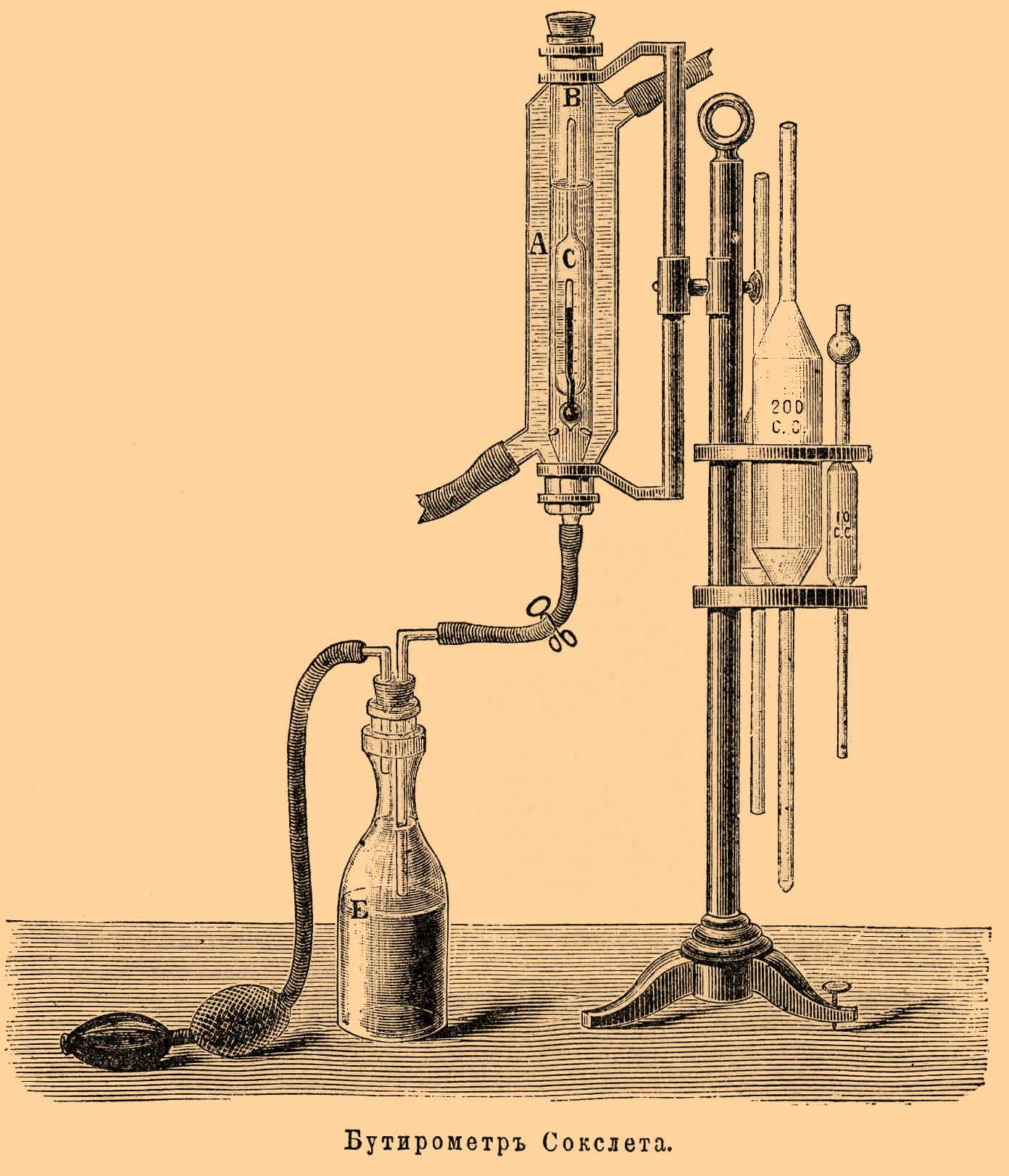 Illustration from Brockhaus and Efron Encyclopedic Dictionary (1890—1907)